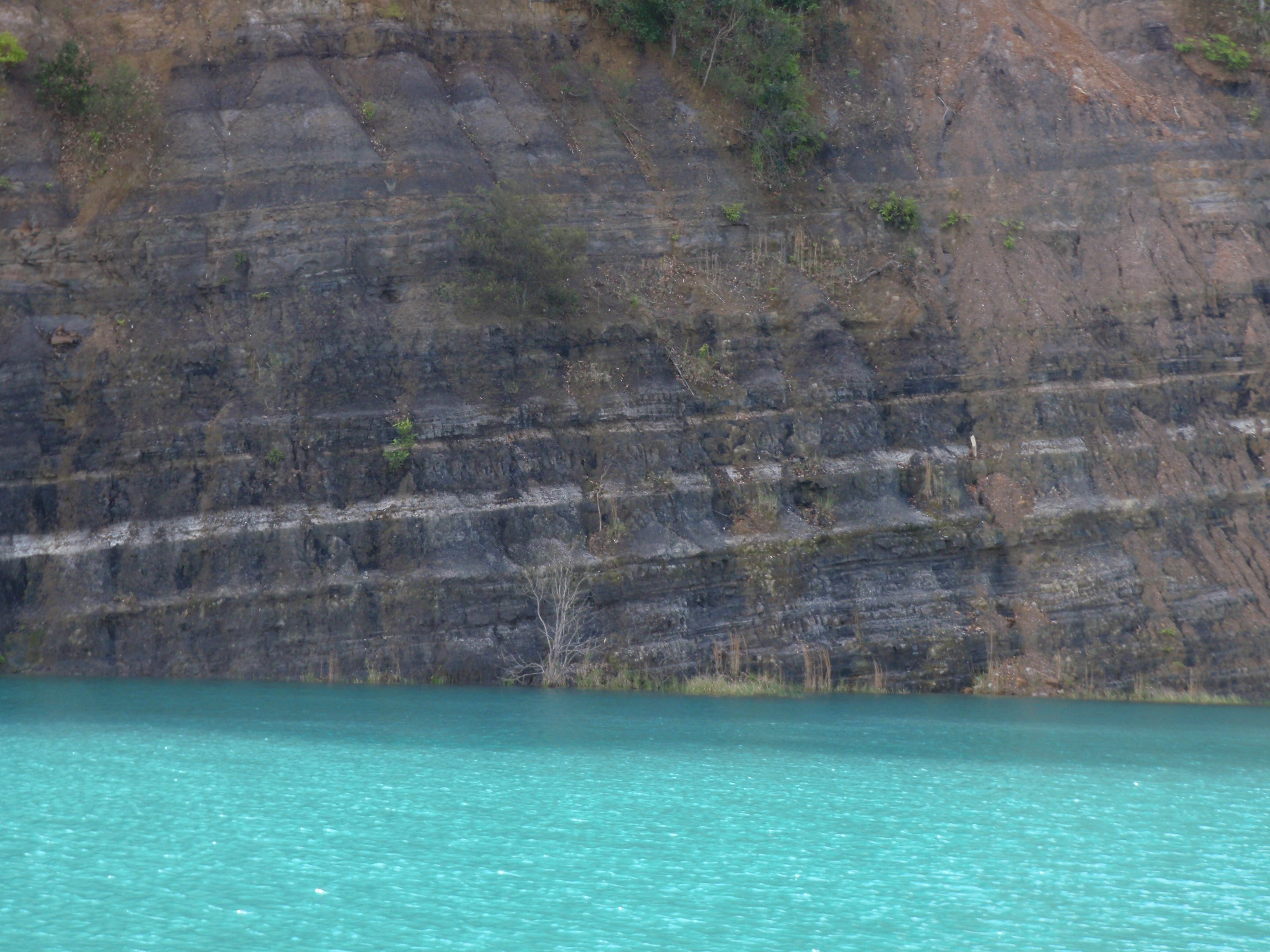 A section of the Walloon Coal Measures exposed in quarry at Bexhill in New South Wales, Australia.